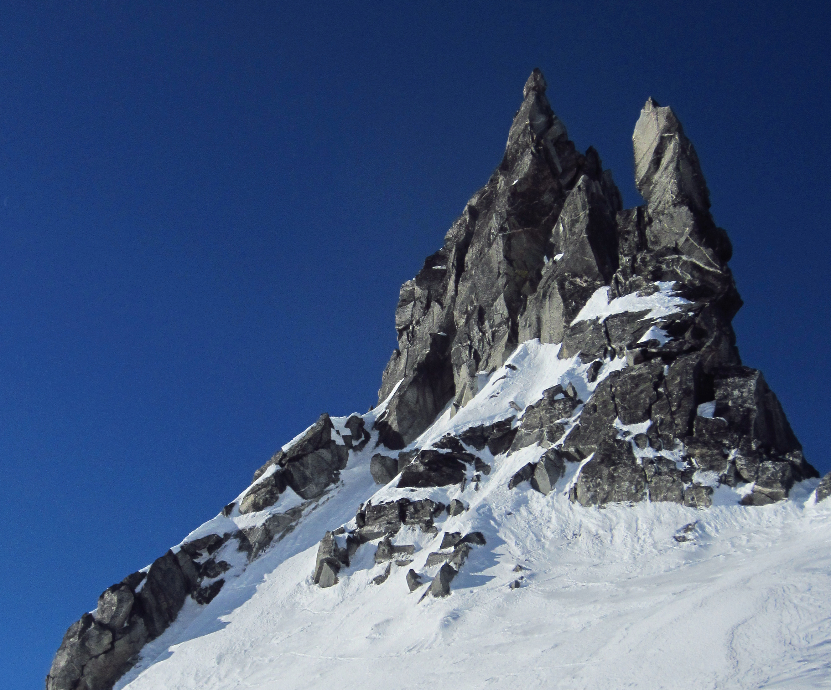 Another day from the Col. Spire at Klawatti-Austera col in North Cascades National Park.